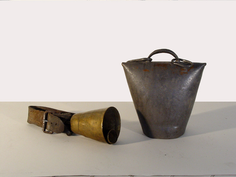 Vicigov i klepetuša - cowbells. Srpski (latinica): Vicigov i klepetuša - stočarska zvona.